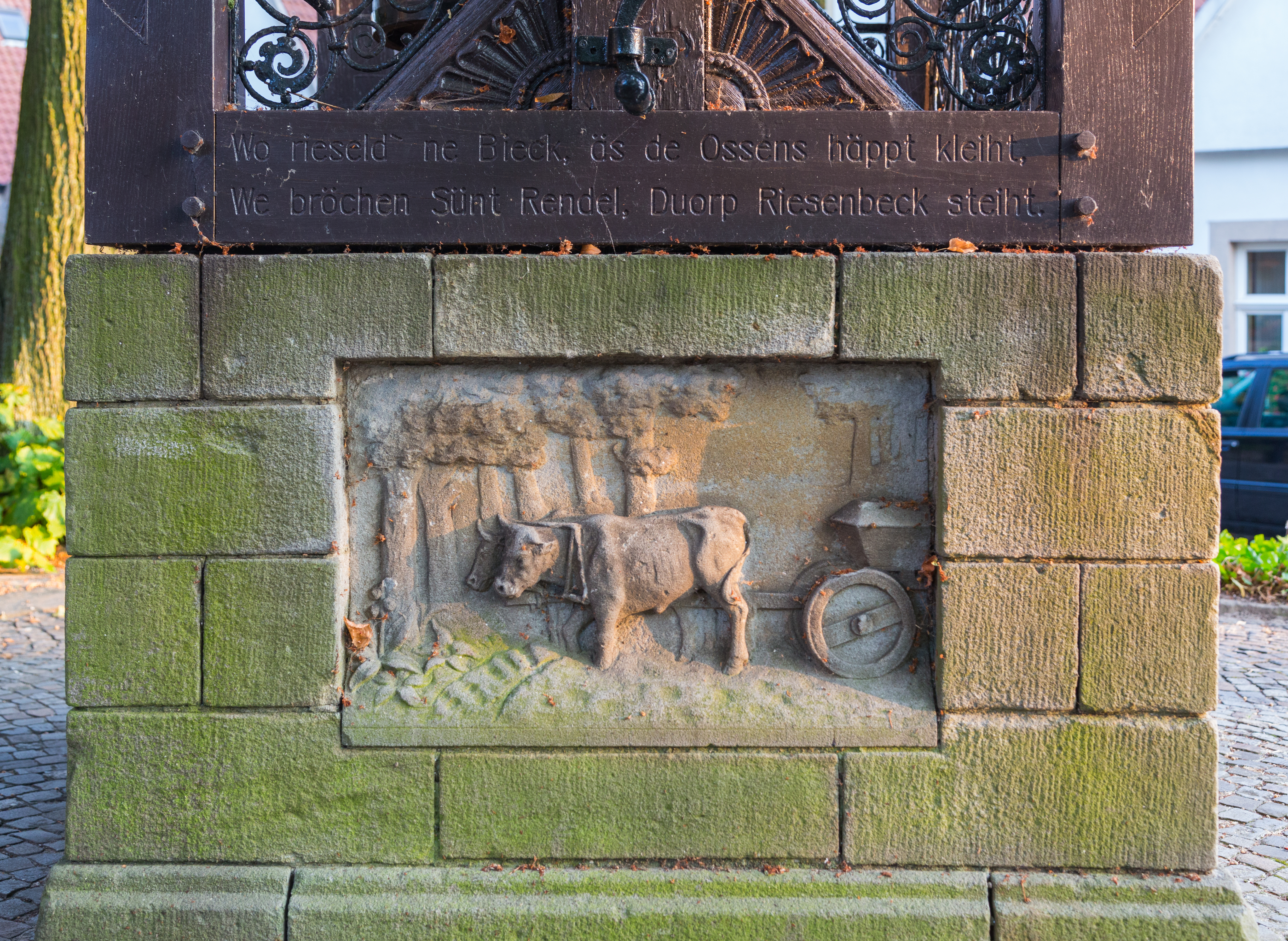 Detail of the Reinhildis Dug Well (Reinhildisbrunnen) at the St. Kalixtus churchyard in Hörstel-Riesenbeck, Kreis Steinfurt, North Rhine-Westphalia, Germany. The dug well, also a memorial, was built in 1912. It tells the story of Saint Reinhild [Saint Reinhildis/Sünte Rendel].